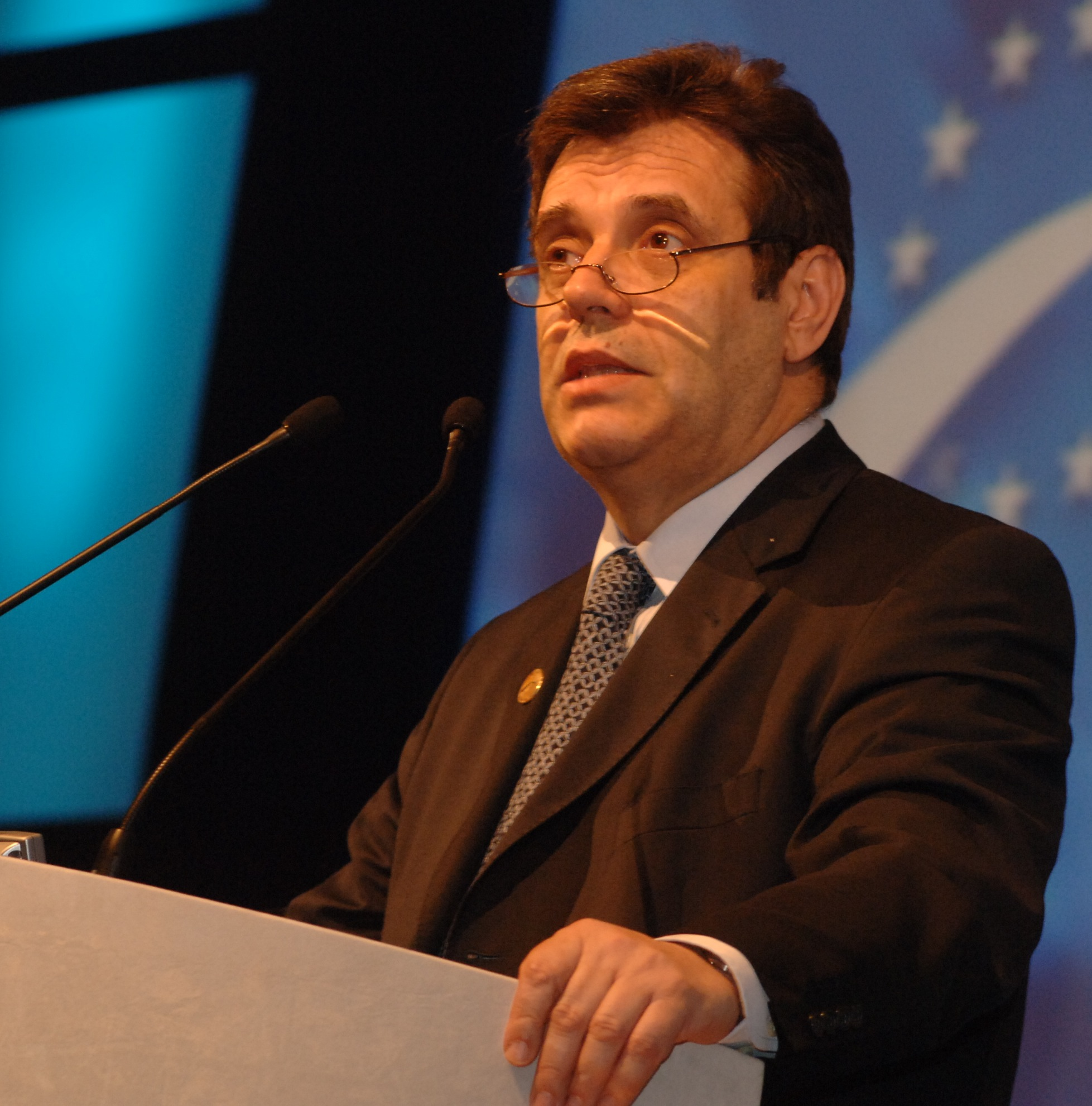 Vojislav Koštunica at the EPP Congress Rome 2006